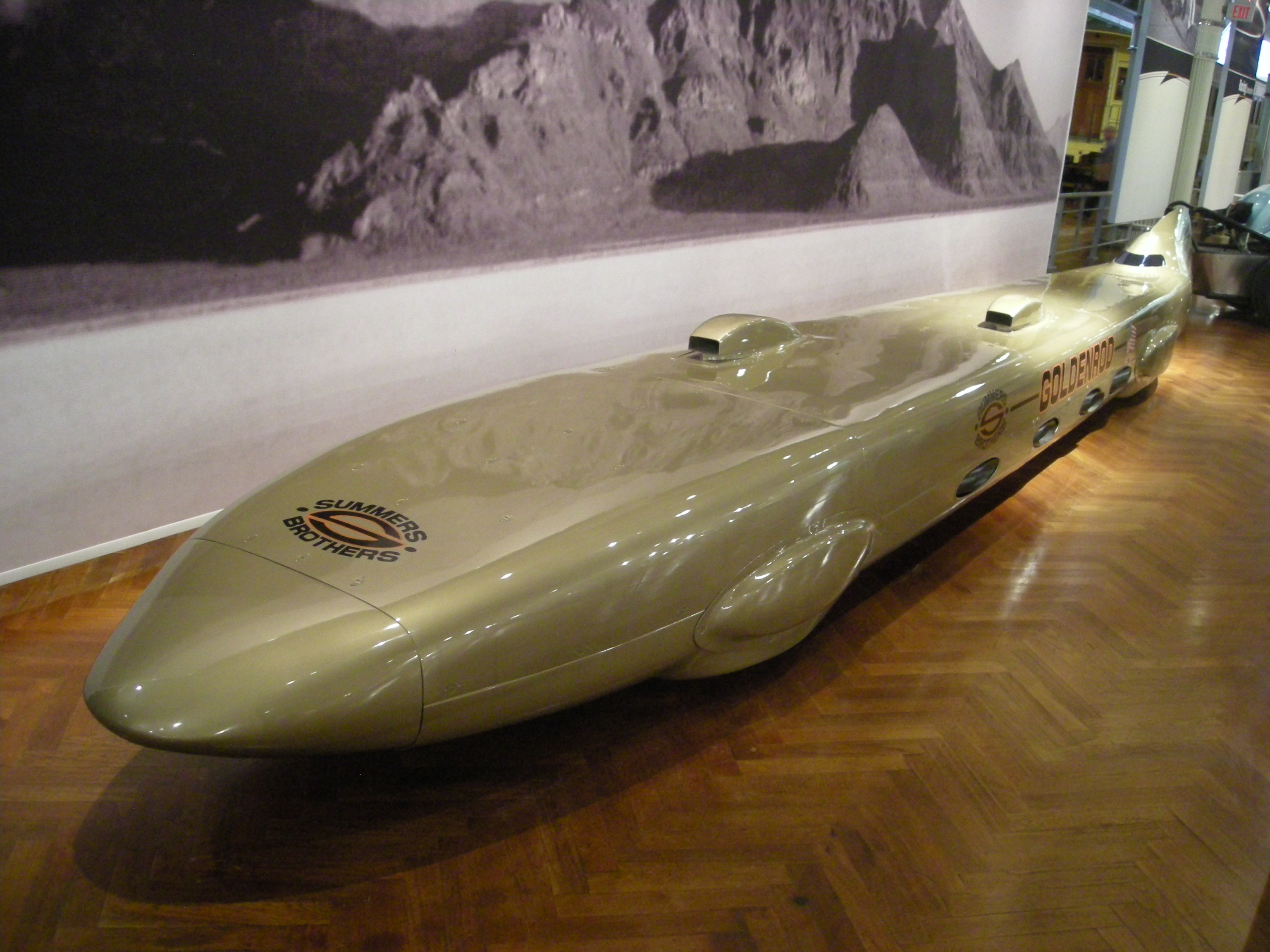 The 1965 Goldenrod streamliner car on display at the Henry Ford Museum in Dearborn, Michigan (United States).